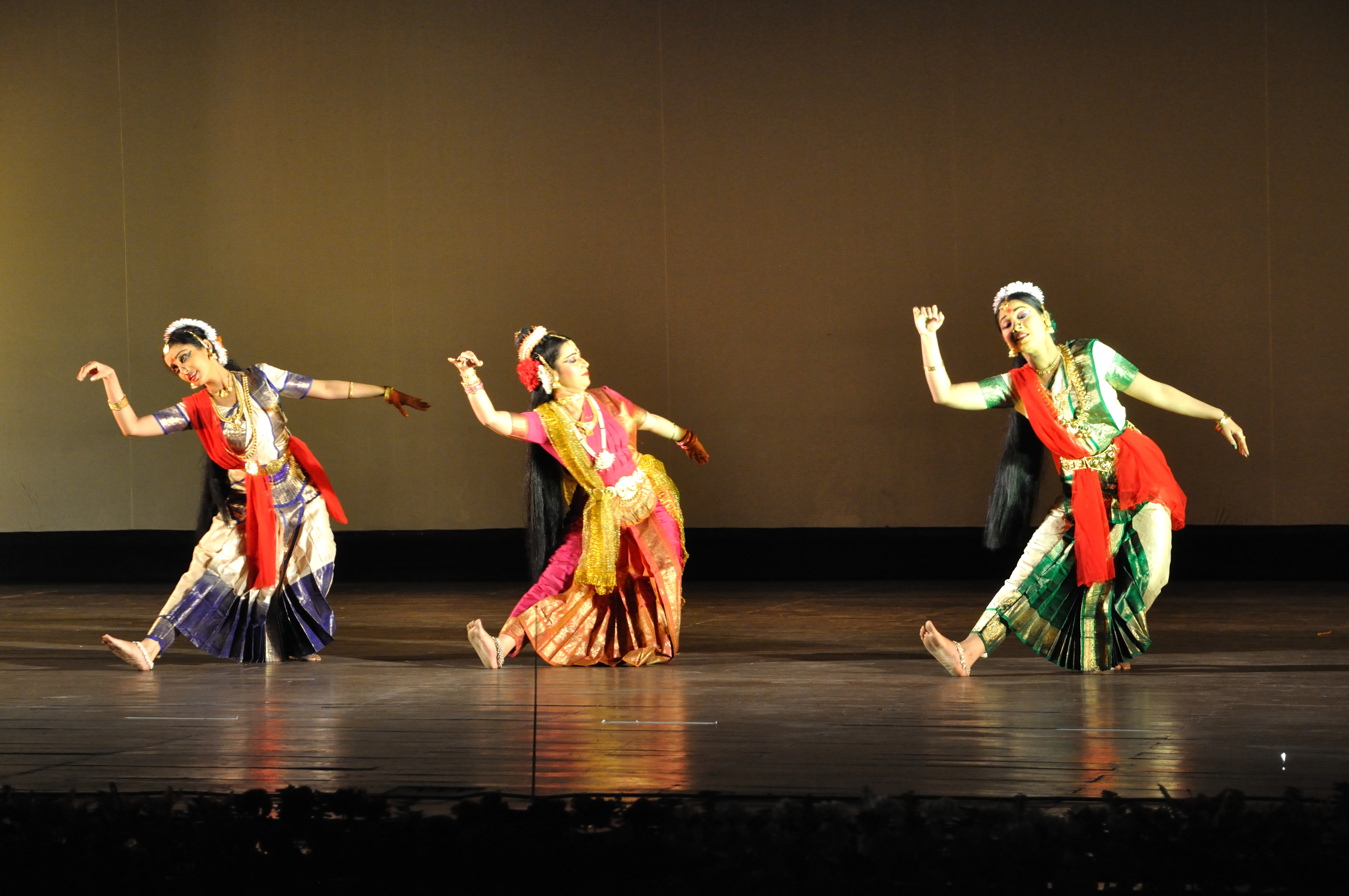 The Season’s Galore (bn: Rituranga) dances with Rabindranath Tagore’s song (bn: Rabindra Sangeet) performed by the ‘Kalamandalam’, Kolkata. It was choreographed & directed by Dr. Thankamany Kutty at Science City, Kolkata. This media file is uploaded with India loves Wikipedia event.